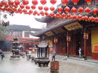 Description Jade Buddha Temple, Shanghai, China. This picture was taken while ‘Spring Snows’ falling from the sky. Source own work ( Author cedventure Created in 2006